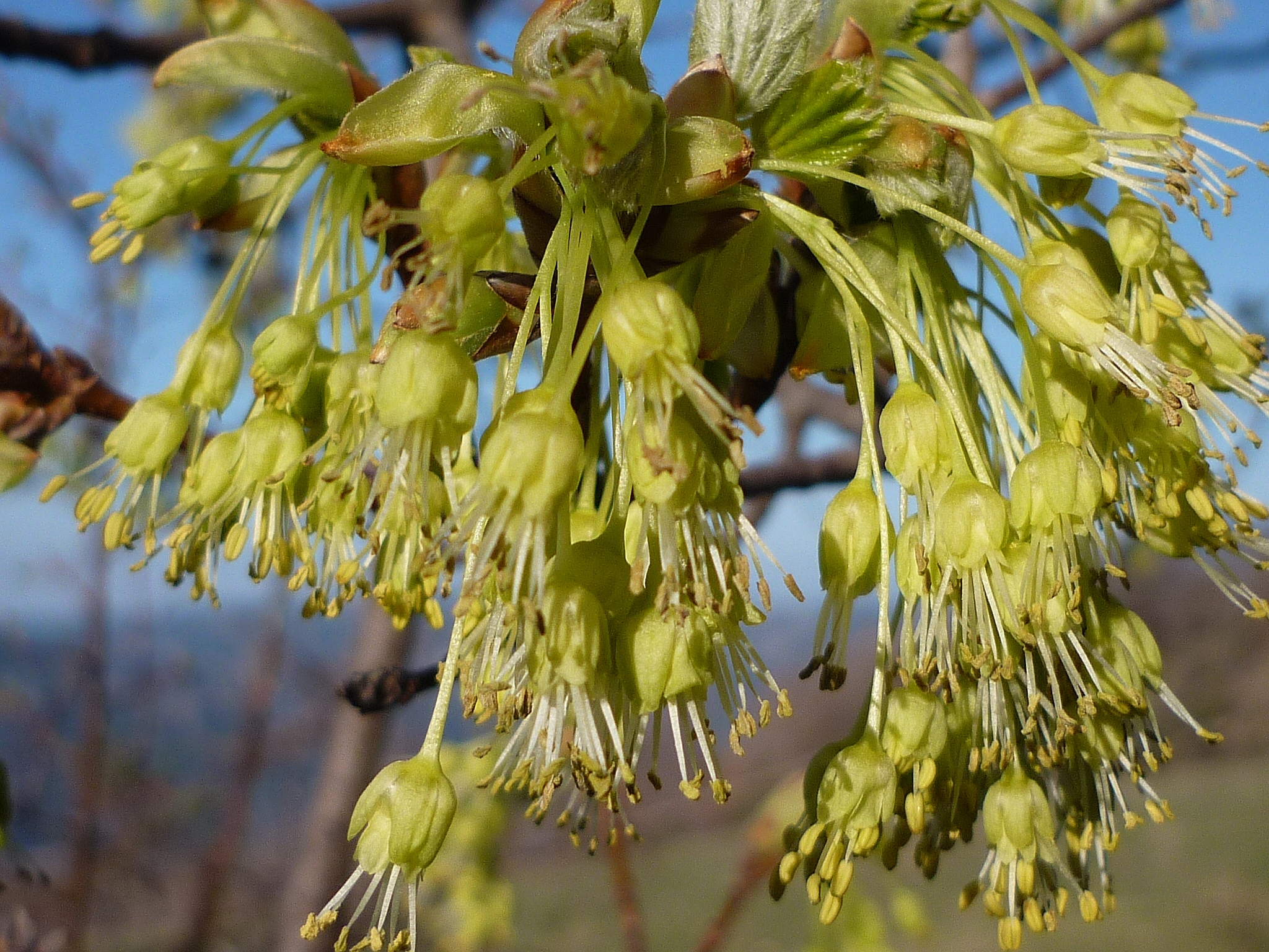 Acer opalus. In Montcalb (Solsonès-Catalunya). At 1,400 m. altitude